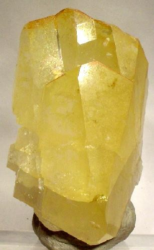 Colemanite Locality: Boraxo Mine (Kern Borate; Boraxo Deposit; Boraxo No. 1 and No. 2; Clara Claim; Thompson Mine; Tenneco Mine), Inyo County, California, USA (Locality at ) An excellent cluster of highly lustrous, partially transparent, golden-amber colemanite crystals from the Boraxo Mine, Inyo County, California. This is classic, old-time material. 6.6 x 4.4 x 3.6 cm